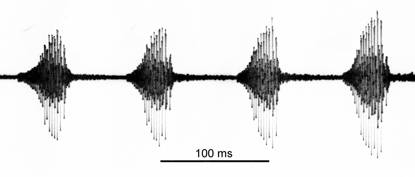 Oscillogram of four pulse groups from a mating call of a lakefrog male, recorded on 20.05.1990 at Atyrau, Kazakhstan, at 20° C water temperature. Atyrau, formerly Gurjev is the type locality of Pelophylax ridibundus